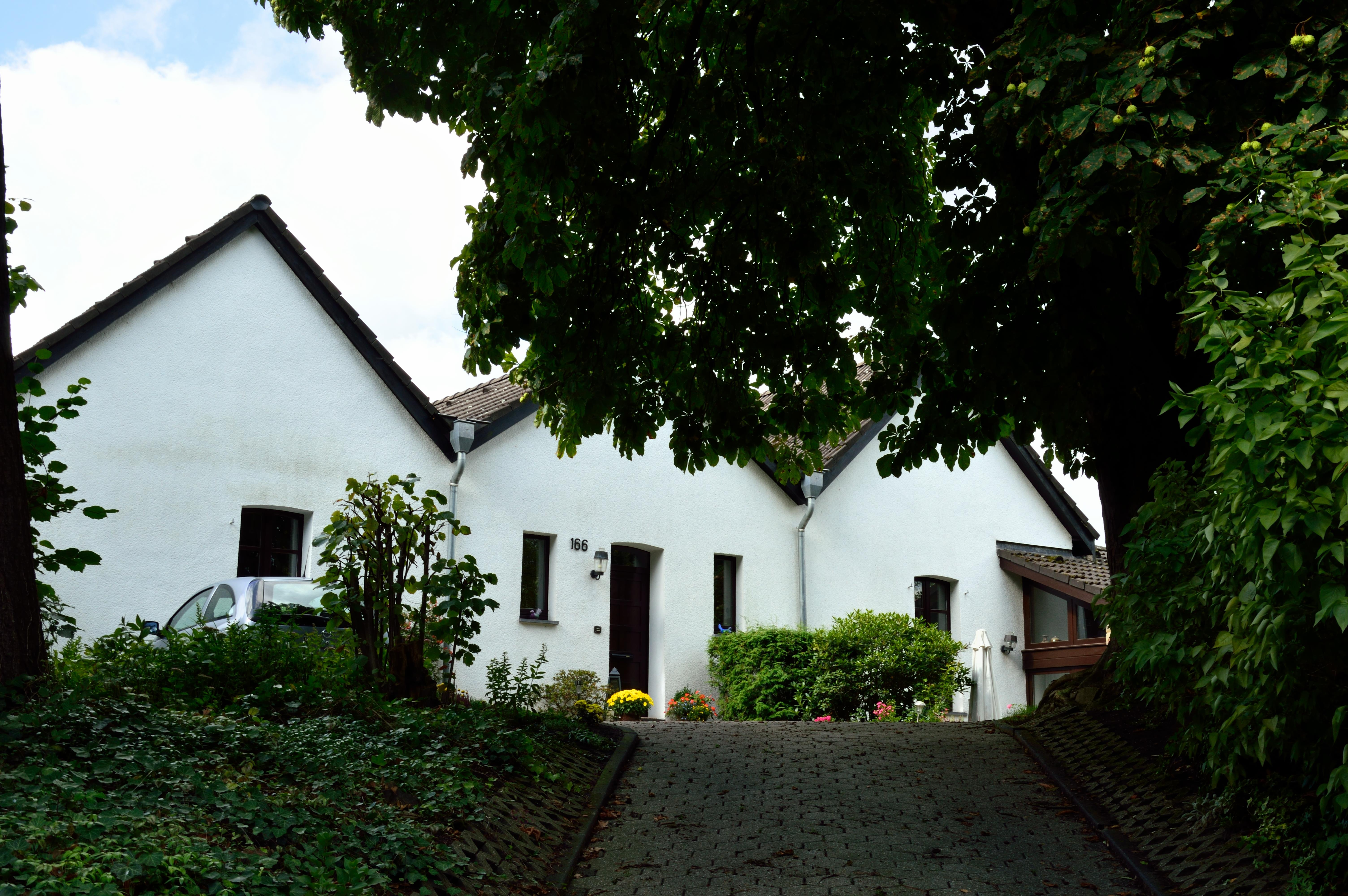 house Rauendahlstraße 166 in Witten, former buildings of mine Zeche Fortuna ins Westen, Schacht Aurora